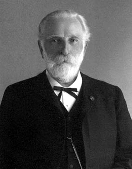 Jacob Petrus Havelaar